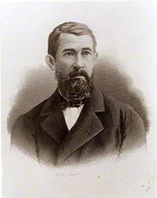 William Martin Dickson (1827-1889) was a lawyer, prosecuting attorney, and judge of Cincinnati, Ohio. He led the Black Brigade of Cincinnati during the American Civil War. Portrait Collection, Cincinnati History Library and Archives, Cincinnati Museum Center